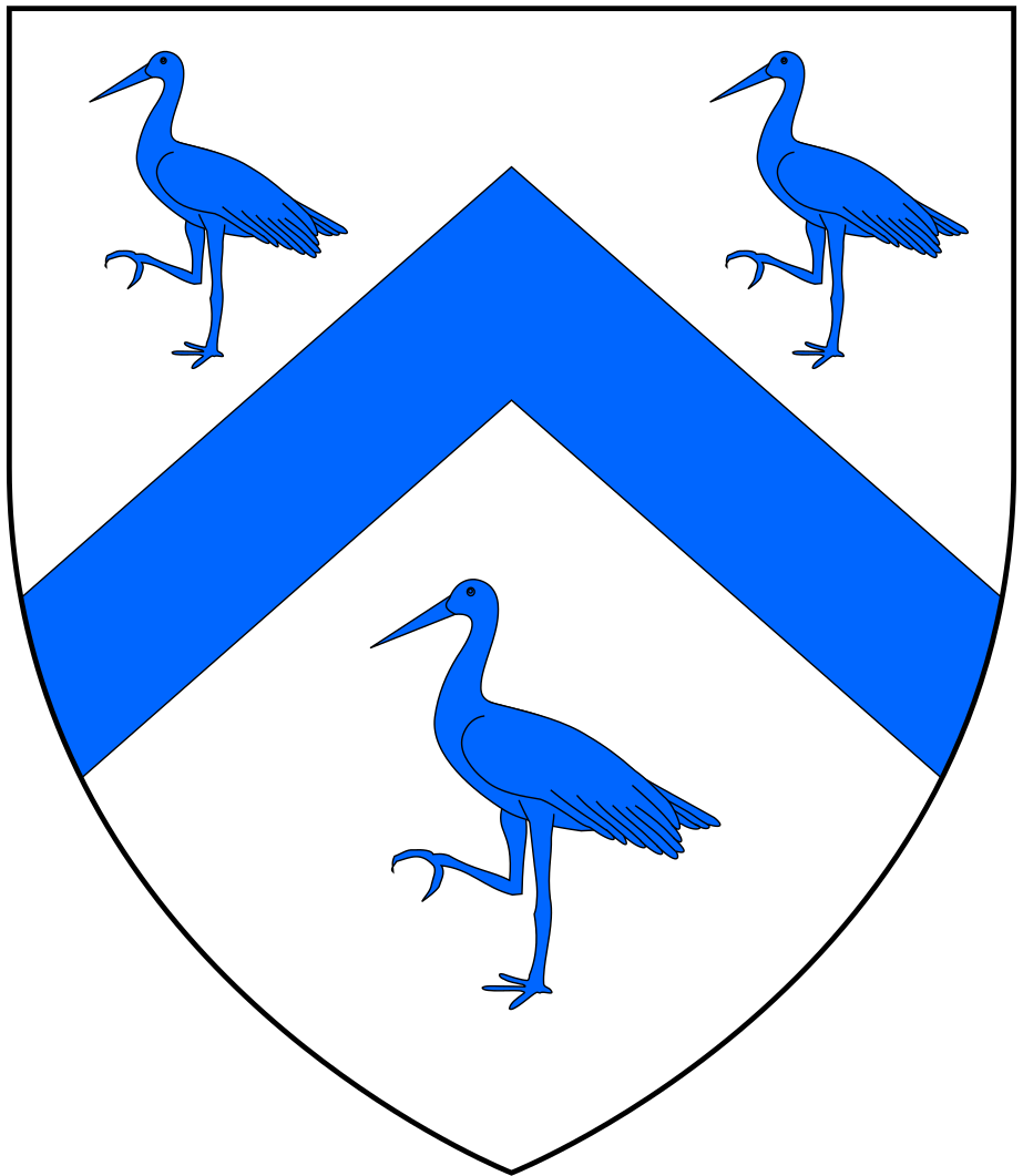 Paternal canting arms of Thomas Cranmer, Archbishop of Canterbury: Argent, a chevron between three cranes azure. Showing the arms of the See of Canterbury impaling the canting arms of Cranmer: A chevron between three cranes. These arms were changed by King Henry VIII to On a chevron between three pelicans vulning themselves three cinquefoils as recorded by Thomas Strype in 1693: About this time it was, as I conjecture, that the King changed his coat of armse. For unto the year 1543 he bore his paternal coat of three cranes sable, as I find by a date set under his arms, yet remaining in a window in Lambethhouse. For it is to be noted, that the King, perceiving how much ado Cranmer would have in the defence of his religion, altered the three cranes, which were parcel of his ancestors' arms, into three pelicans, declaring unto him, "That those birds should signify unto him, that he ought "to be ready, as the pelican is, to shed his blood for his "young ones, brought up in the faith of Christ. For," said the King, " you are like to be tasted, if you stand to your "tackling at length." (Strype, John, Historical and Biographical Works: Memorials of Thomas Cranmer Chapter 28, 1544 (p.181 of 1840 edition[1]) Cranmer's seal of Nov. 1538 still showed cranes, but by April 1540 he had adopted the pelicans. (Ridley, Jasper, Thomas Cranmer, note 1 to chapter 1[2]) Arms of Cranmer (per Berry, William, Encyclopaedia Heraldica, Or Complete Dictionary of Heraldry, Volume 2[3] : Argent, a chevron between three cranes azure and later arms: Argent, on a chevron azure between three pelicans sable vulning themselves proper as many cinquefoils or Further discussion of Cranmer's seals and heraldry see: MacCulloch, Diarmaid, Thomas Cranmer: A Life, pp.9-12[4]